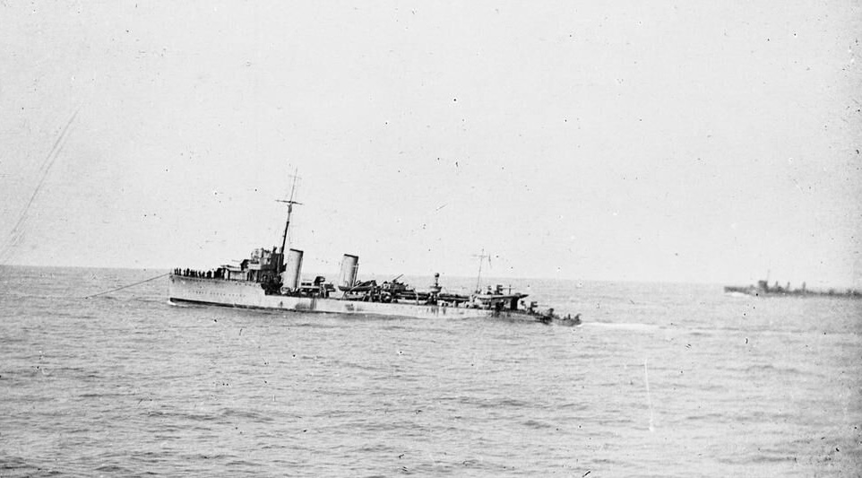 Photograph of British Thornycroft type destroyer leader HMS Shakespeare down by the stern and in tow after striking a mine.